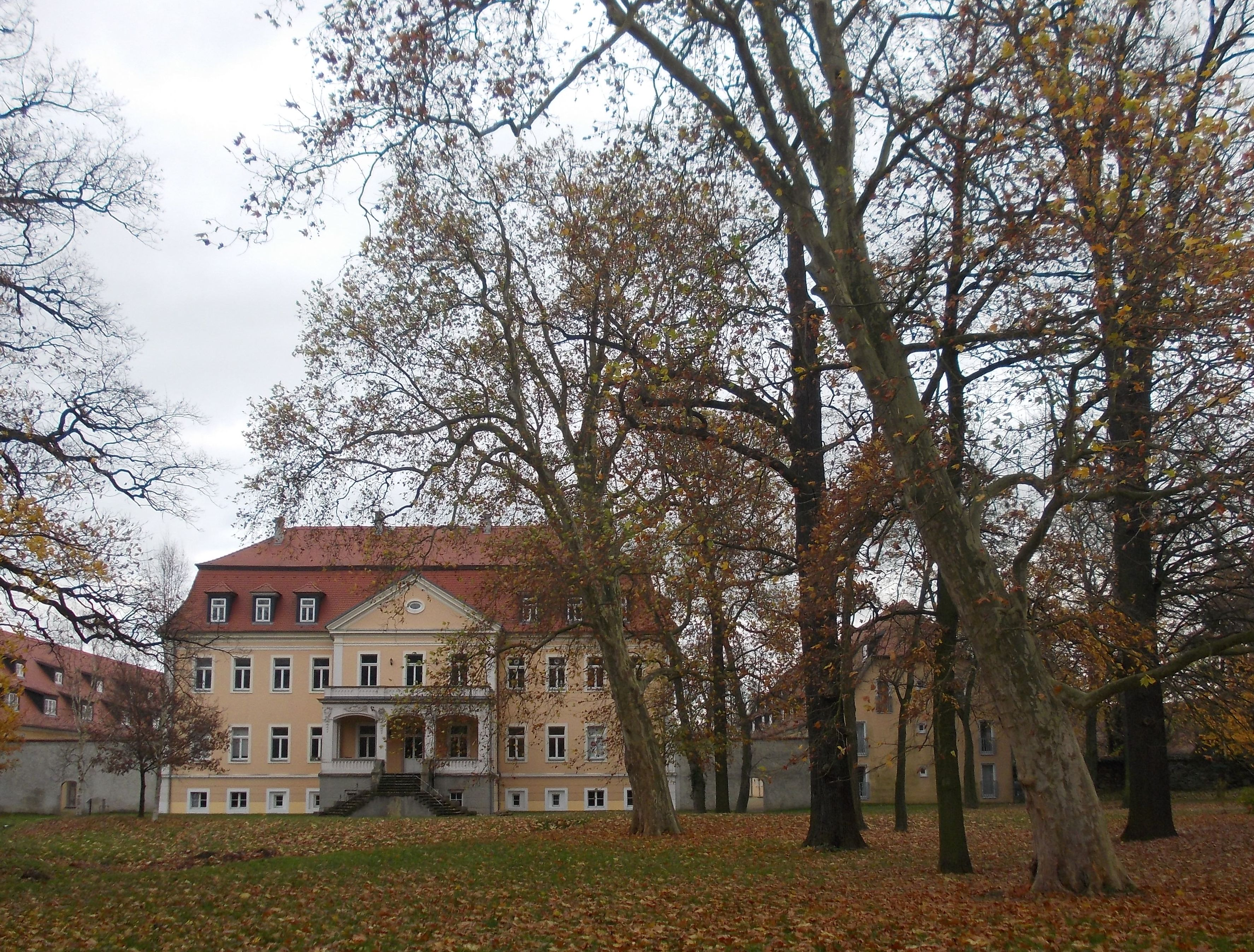 Ammelshain Castle (Naunhof, Leipzig district, Saxony)